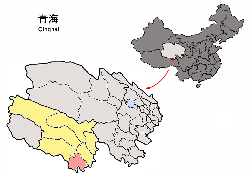 Location of Nangqên County (pink) and Yushu Prefecture (yellow) within Qinghai province of China Map drawn in september 2007 using various sources, mainly : Qinghai province administrative regions GIS data: 1:1M, County level, 1990 Qinghai Counties map from "Plateau Perspectives" (the limits of some county-level subdivisions may not be accurate)